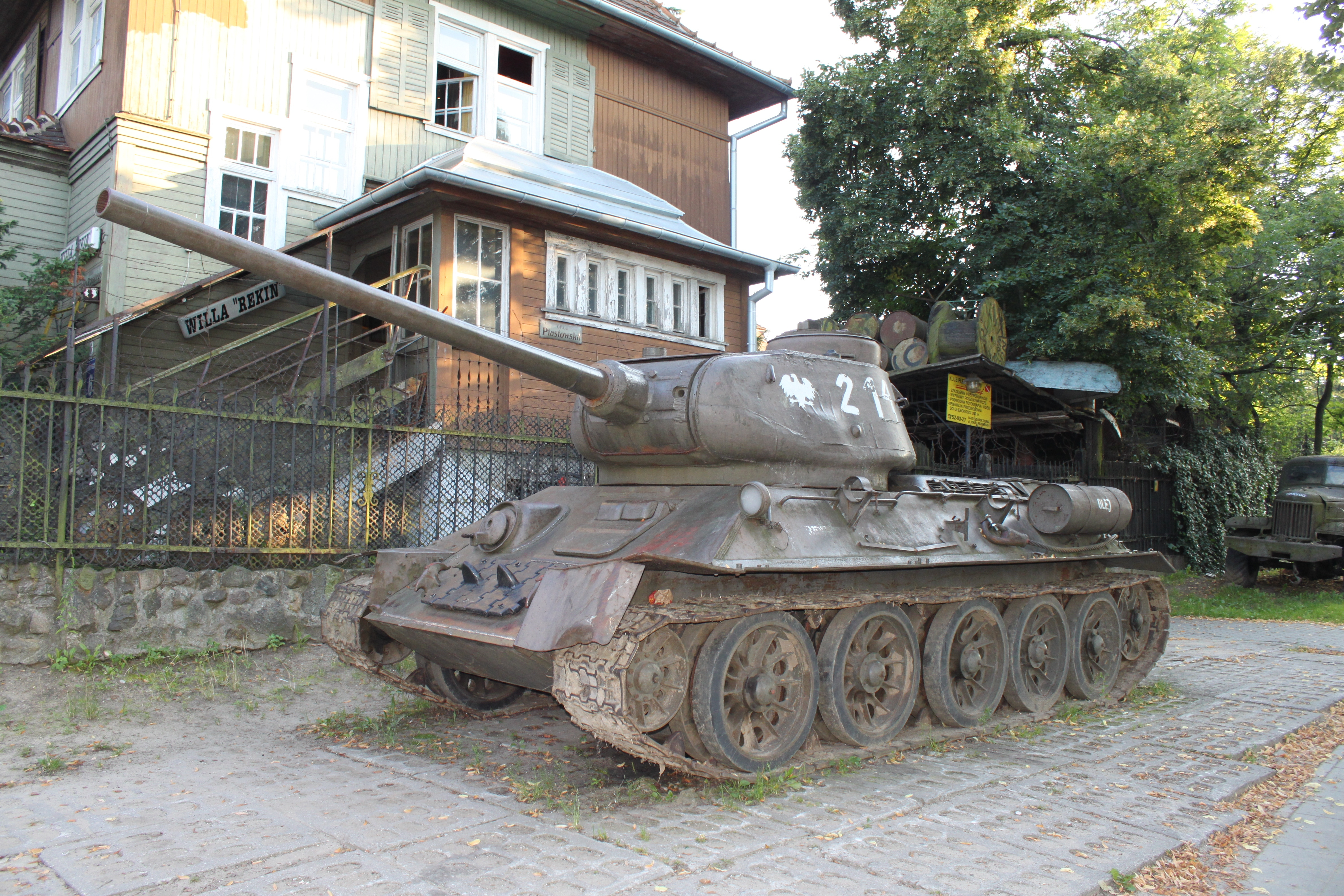 Tank, Hołdu Pruskiego Street in Gdańsk, Poland.